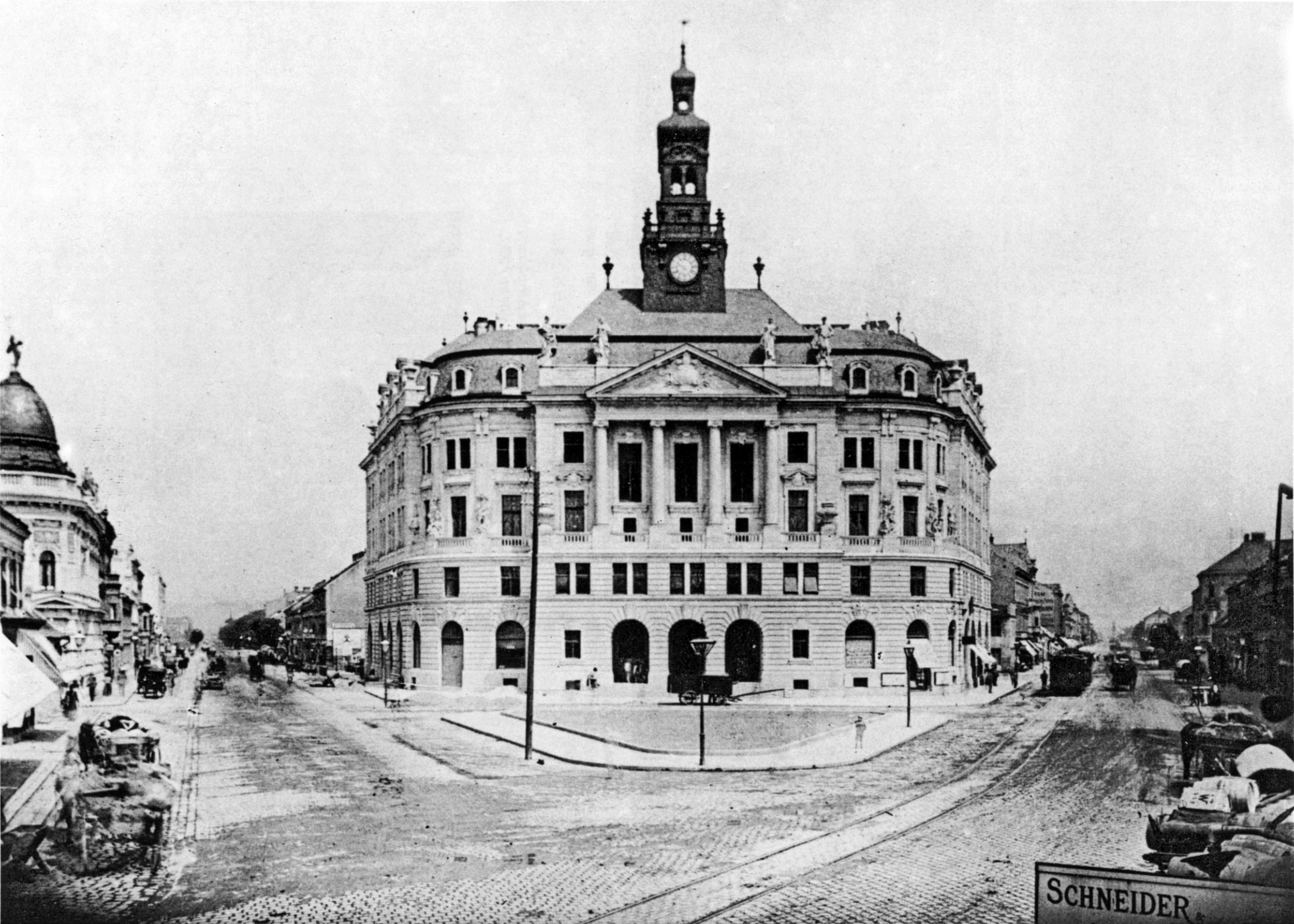 Wien-Floridsdorf, Bezirksamt